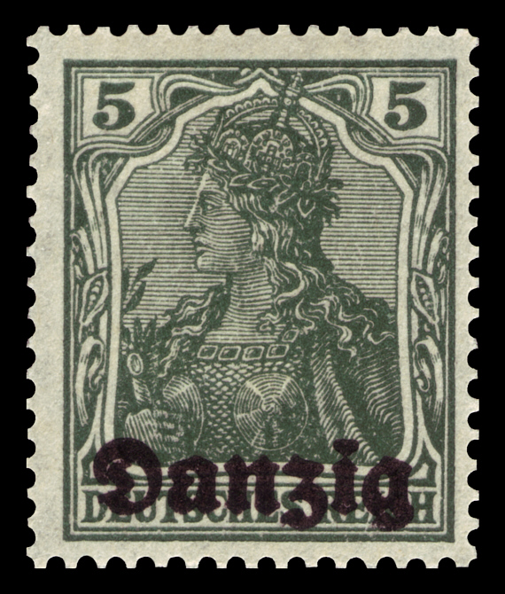 Germania stamps with overprints Ausgabepreis: 5 Pfennig First Day of Issue / Erstausgabetag: 14. Juni 1920 Michel-Katalog-Nr: 1 (Danzig) (auf 85II Deutsches Reich)